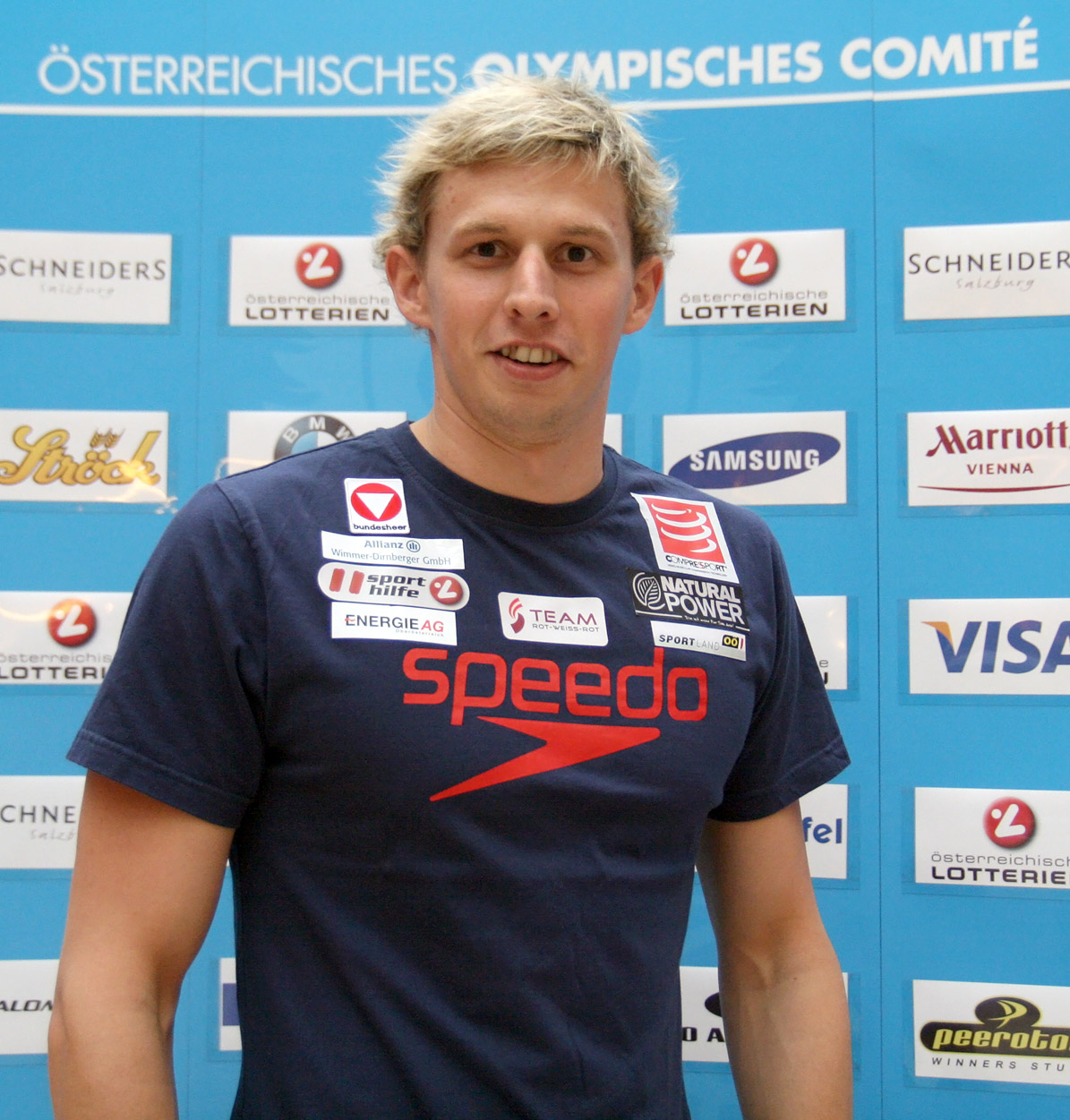 Swimmer David Brandl at the hand-out of the Austrian teams official attire for the 2012 Summer Olympics in London (Marriott, Vienna).